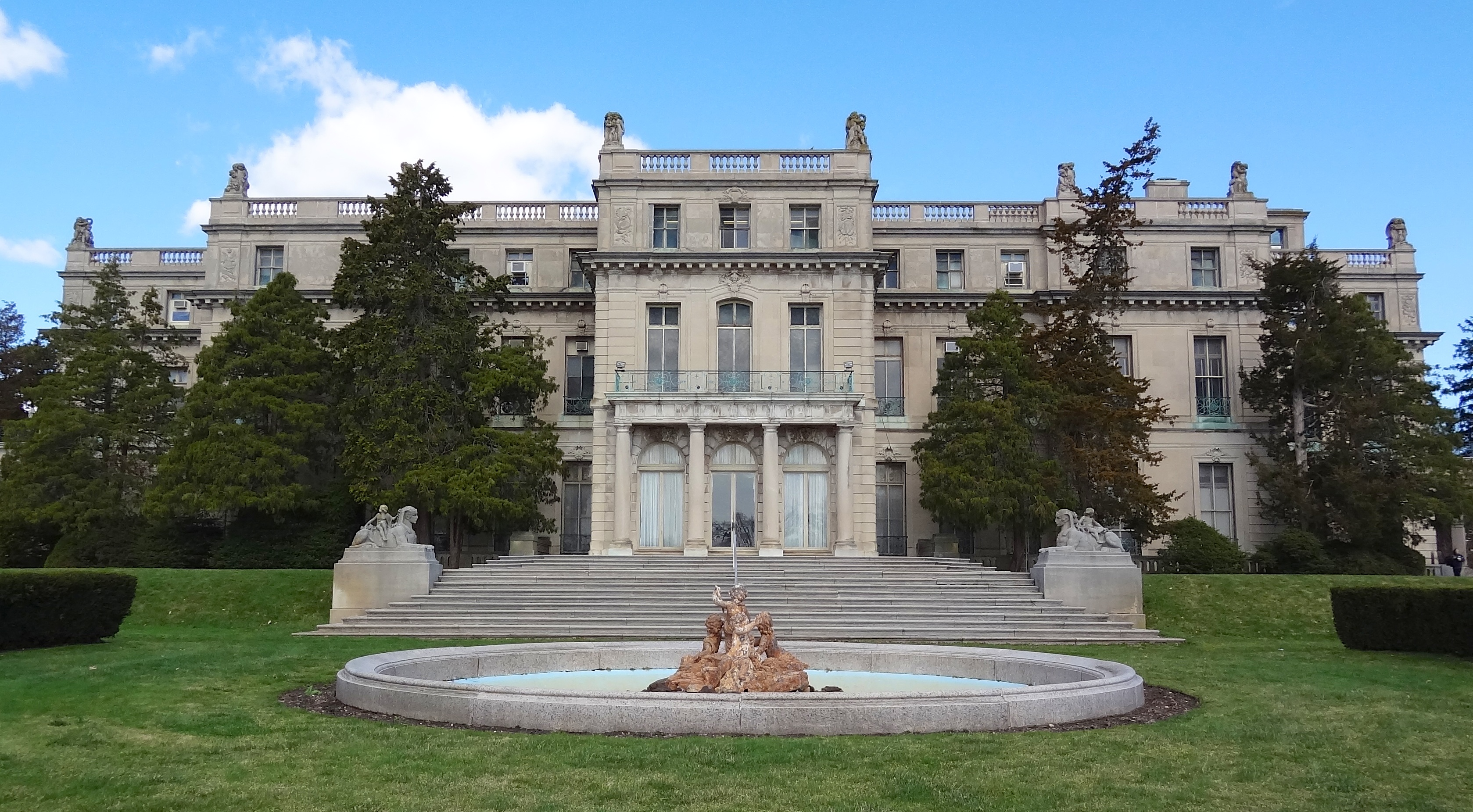 Shadow Lawn, now called Woodrow Wilson Hall, at Monmouth University.